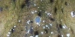 Third eye of young frog Lithobates catesbeianus. Cropped version of Frog parietal eye.JPG.